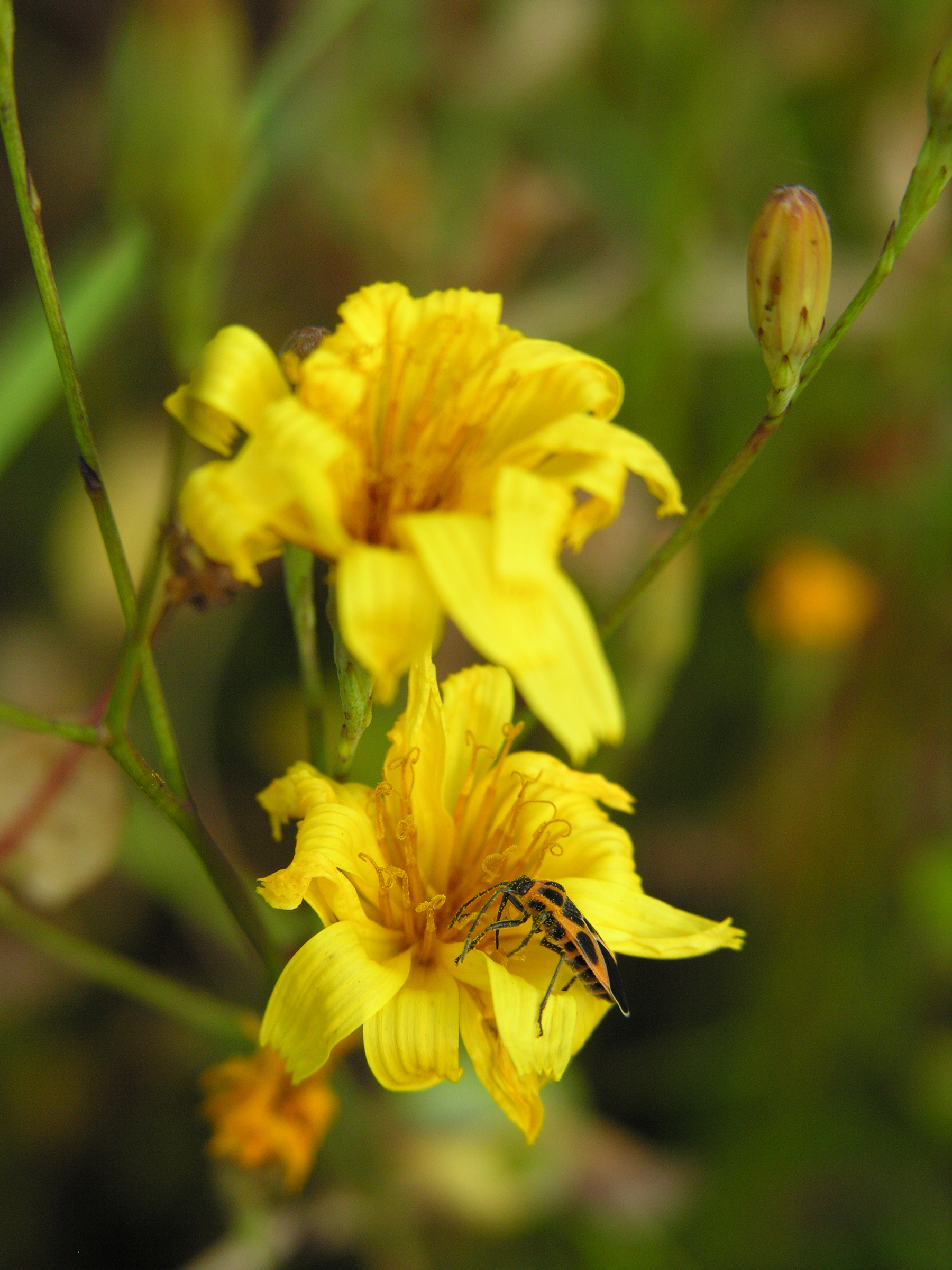 withered Hololeion krameri with Tropidothorax belogolowi